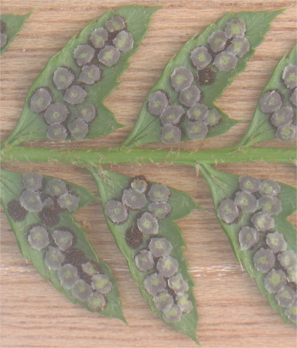 Polystichum aculeatum